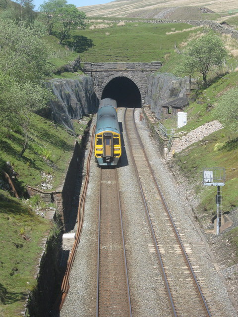 Southern End of Blea Moor Tunnel Taken from the aqueduct at Little Dale.